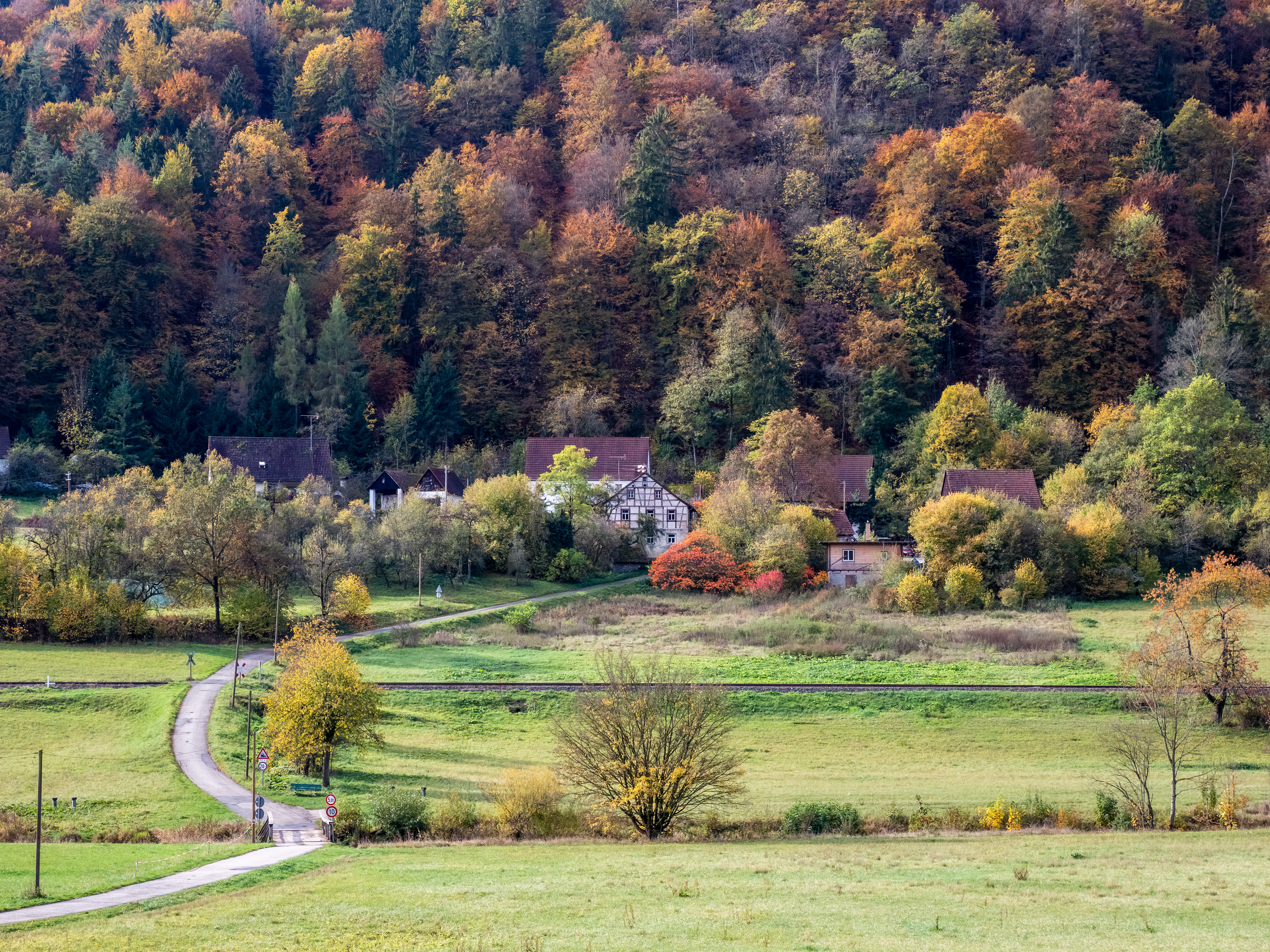 View to Haag (Wiesenttal) near Muggendorf in the Franconian Switzerland. The road crosses first the Wiesent and then the railway line Ebermannstadt-Behringersmühle.